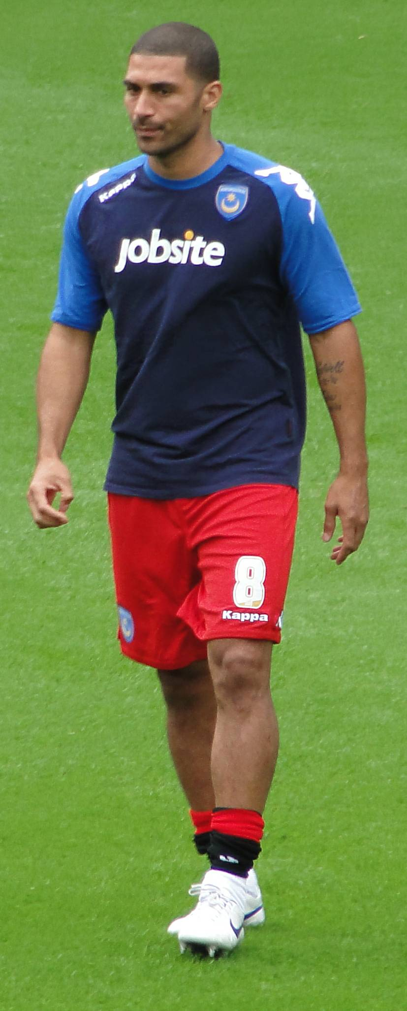 Mullins warming-up for Portsmouth before their game at The Boleyn Ground, London against West Ham United.